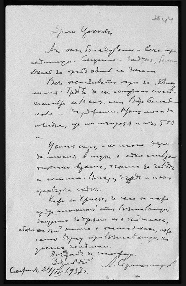 Letter from Anton Strashimirov to Ivan Tsankov